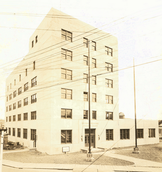 Ketchikan, Alaska Federal Building (1938) Completed in 1938. Architect: Garfield, Stanley-Brown, Harris & Robinson Still in use by the U.S. District Court for the District of Alaska.